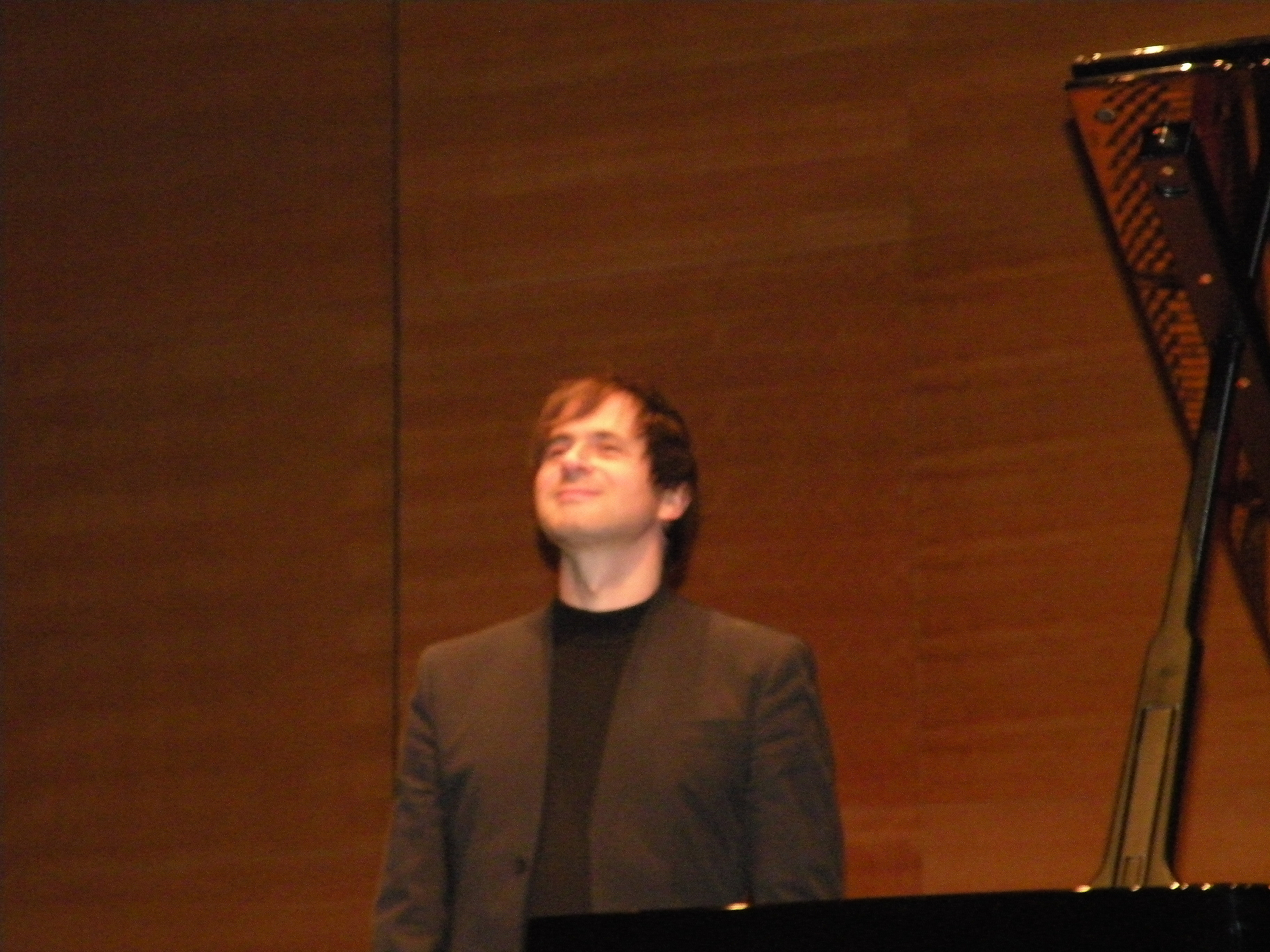 Piotr Anderszewski, polish pianist, on 28 january 2009, during La Folle Journée in Nantes.